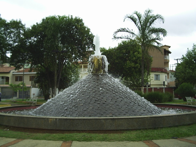 Monument in São Caetano do Sul.